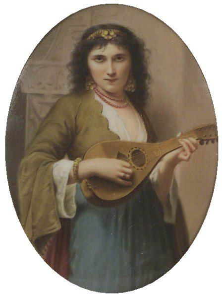 Armenian Girl, Painting on Porcelain (19th century). The author is unknown.